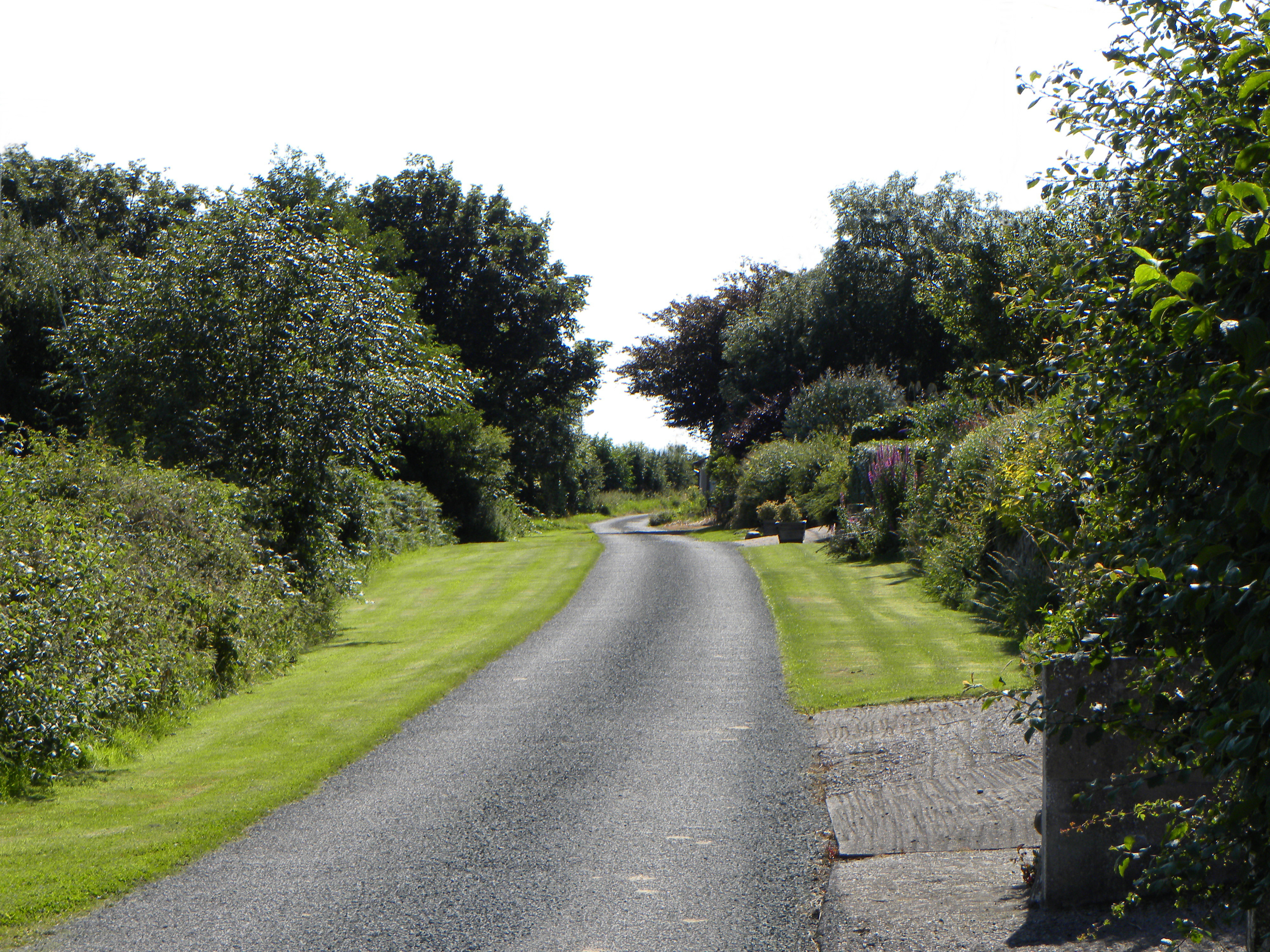 The newly-surfaced road through Salta